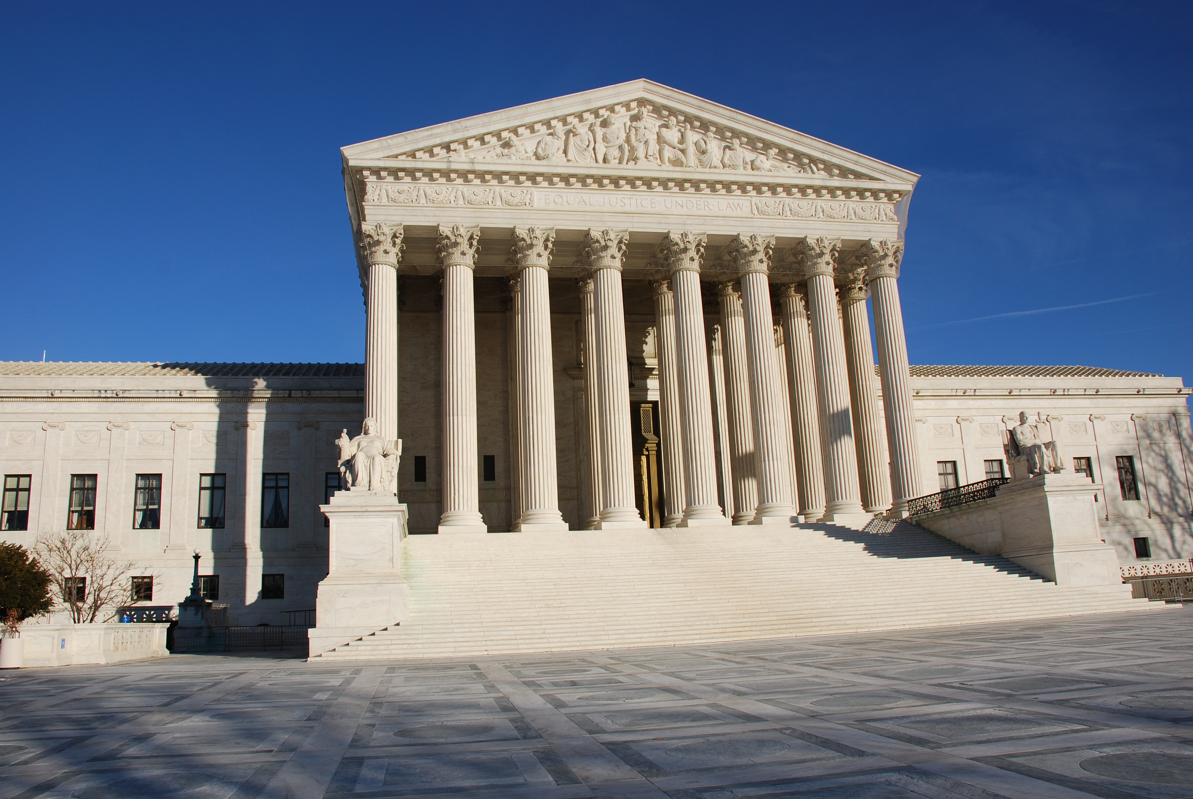 United States Supreme Court building in Washington D.C., USA. Front facade.